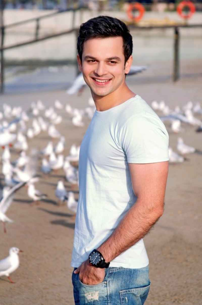 Ravish Desai photo